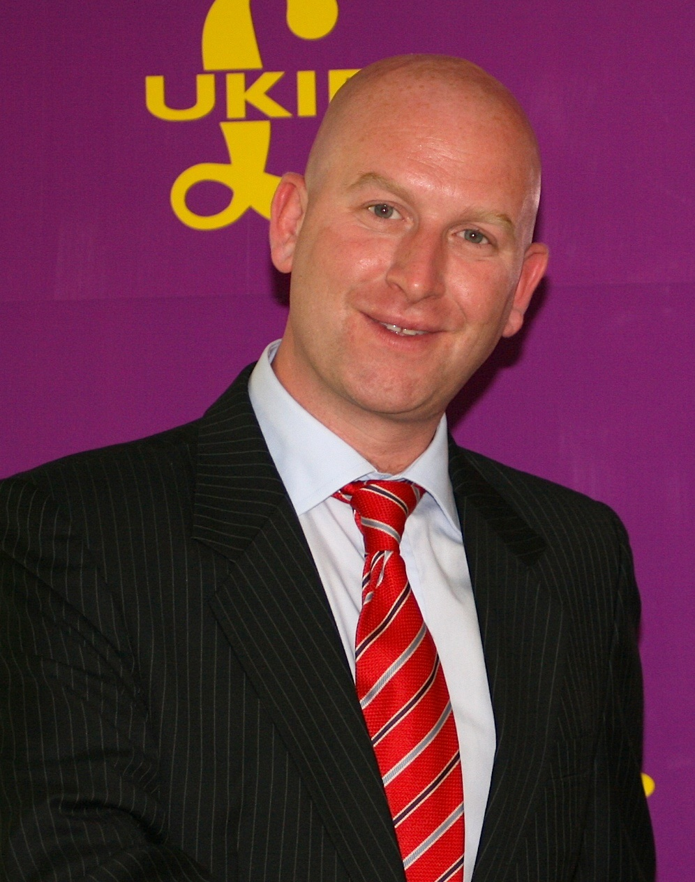 UKIP Deputy Leader Paul Nuttall